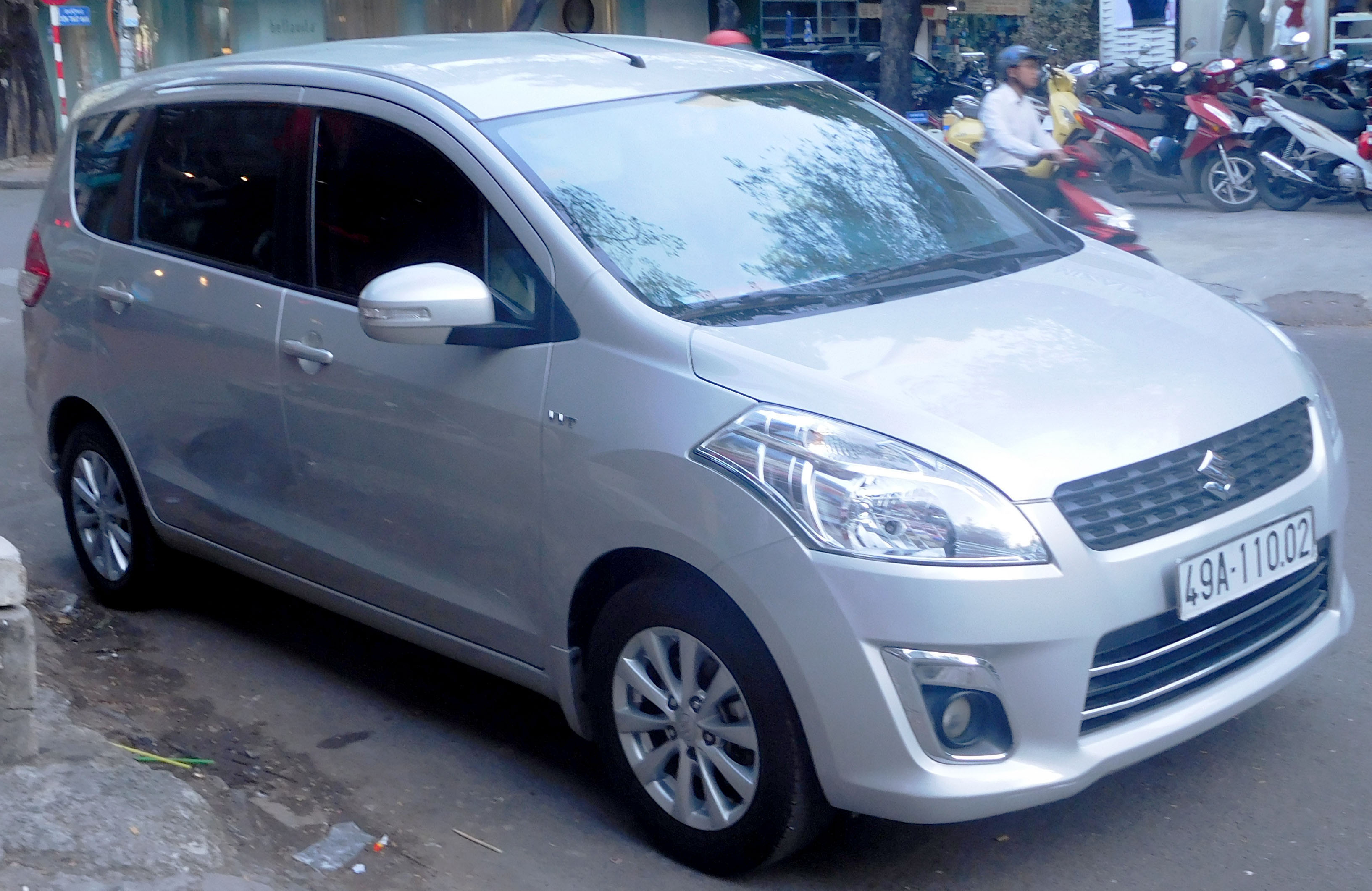 Suzuki Ertiga in Ho Chi Minh City, Vietnam.